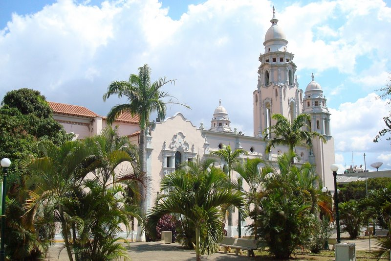 Sideview of Pantheon to the great men of Venezuela, Caracas.